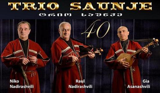 Niko Nadirashvili -(salamuri), Raul Nadirashvili -(panduri prima) and Gia Asanashvili - (panduri tenor).